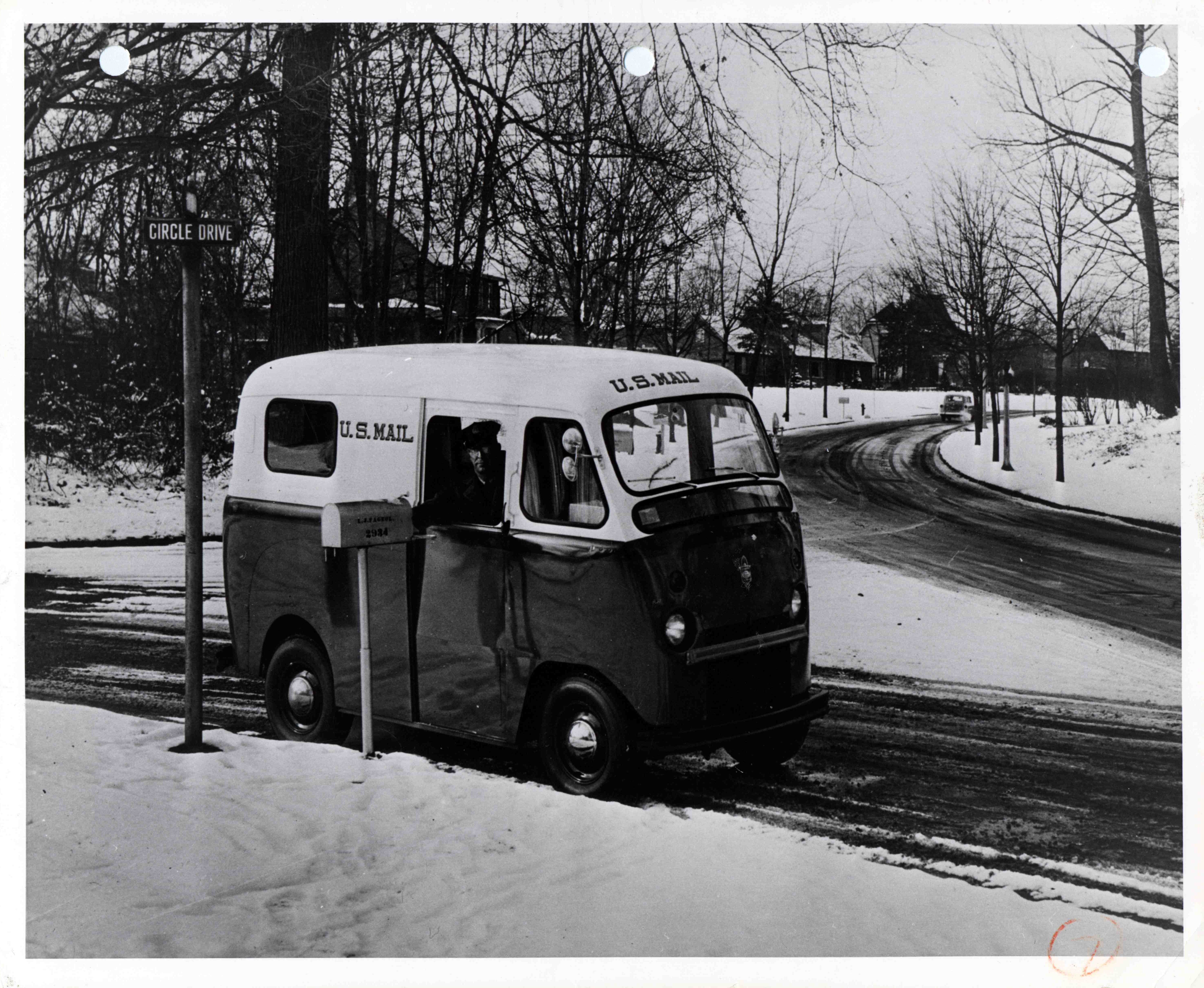 Twin Coach postal van, c. 1953 Date: c. 1953 Object number: A.2010-6 Medium: paper; photo-emulsion Dimensions (Unframed): 8" x 10" Description: A letter carrier drives one of the Department’s new right-hand drive vans on the snowy streets of an unidentified city. The Department ordered thousands of new postal vehicles in the early 1950s as part of its post-war modernization plan. A variety of vehicles were ordered, including right-hand drive step vans such as this. Many of the new vehicles performed adequately, but few of the dozens of different styles ordered were re-ordered in large quantities. Photographer: Unknown Place: United States of America Collection Description: Transportation/Motorized Credit line: National Postal Museum, Curatorial Photographic Collection Photographer: Unknown Repository: , Curatorial Photographic Collection View more collections from the Smithsonian Institution.